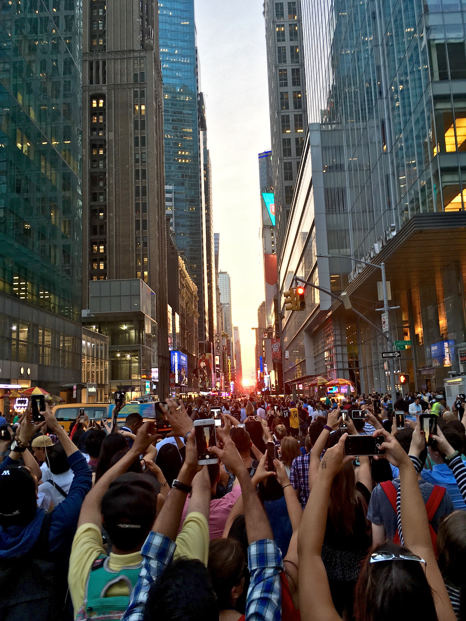 Manhattanhenge on 2016-07-12 at 42nd St. Tourists blocked an entire section of 42nd Street, including its intersection with Sixth Avenue, to take pictures of the sunset.